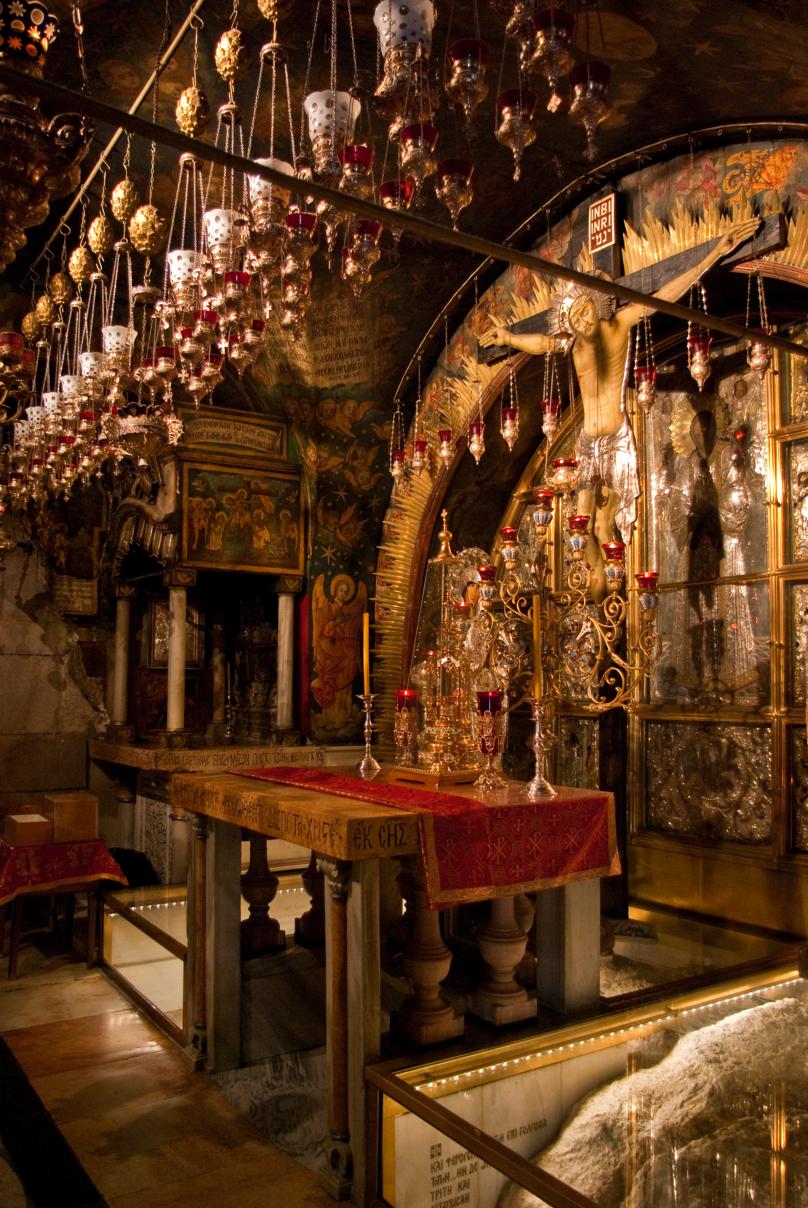 Golgotha in the Holy Sepulchre